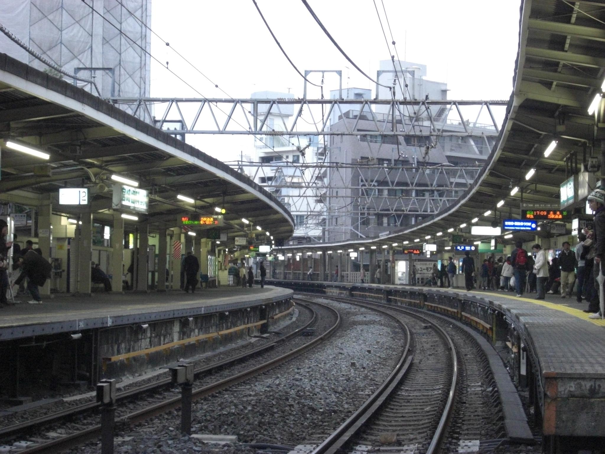 Oyama Station on the Tobu Tojo Line viewed from the level crossing at the north end of the station